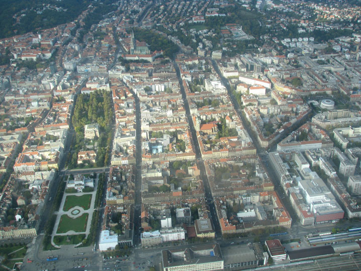 Center of Zagreb